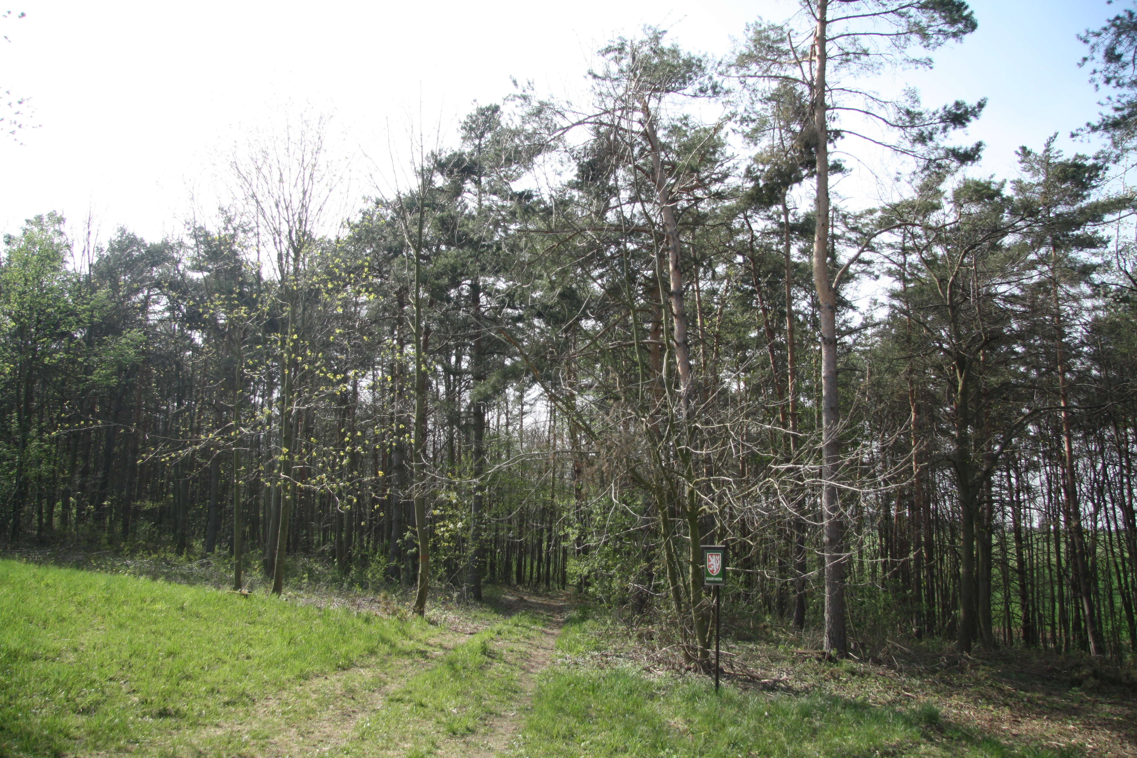 Entrance part of natural monument Hájky in Šebkovice, Třebíč District.